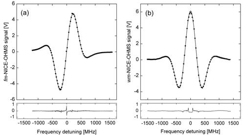 Author: Ove Axner, Unpublished figure